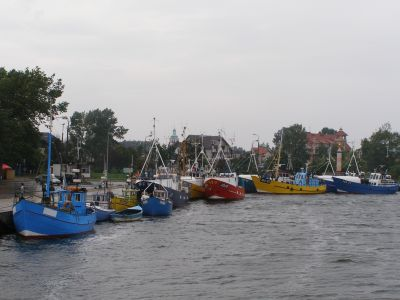 The harbour in Jastarnia, Poland